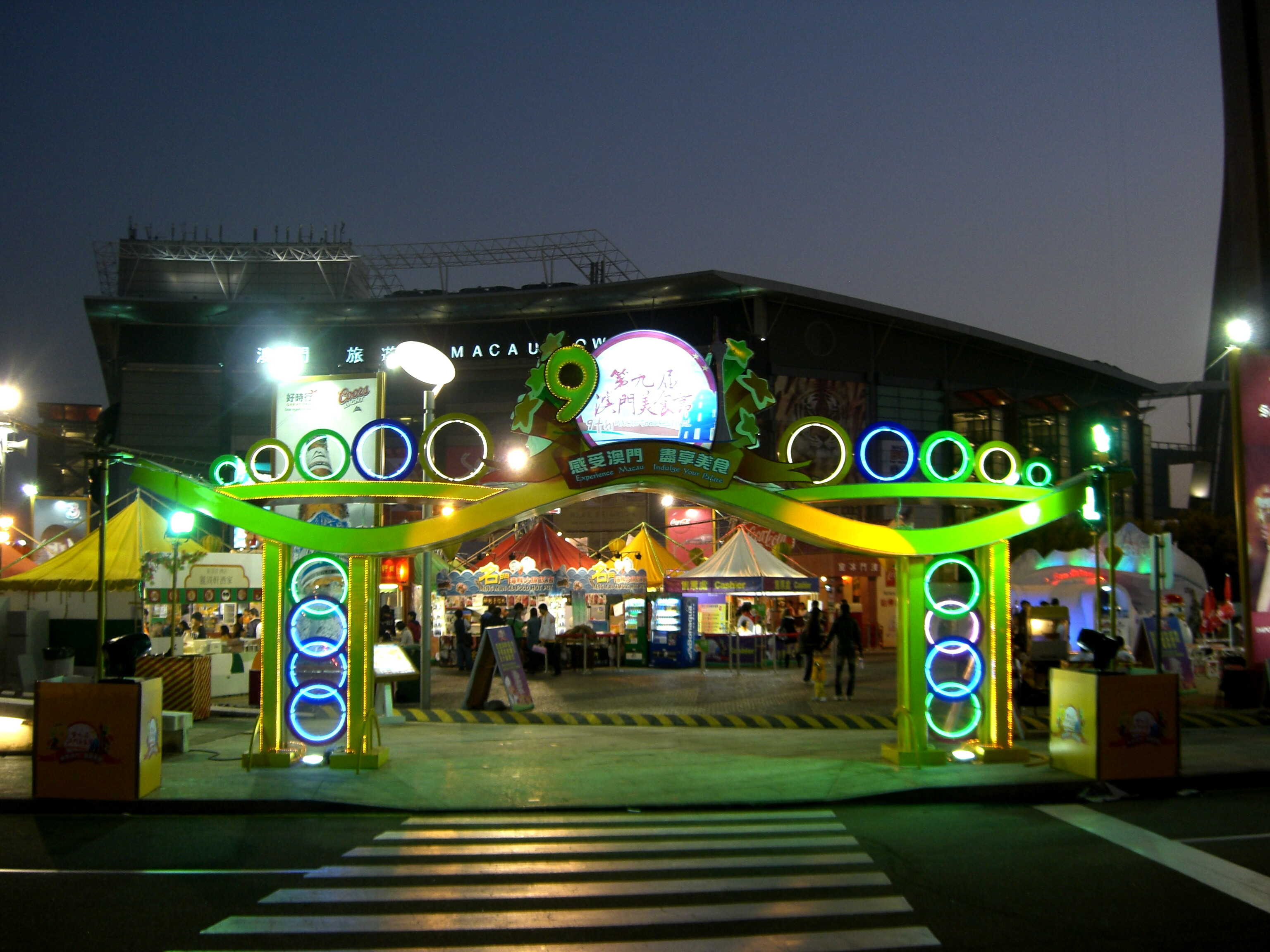 The 9th Macau Food Festival